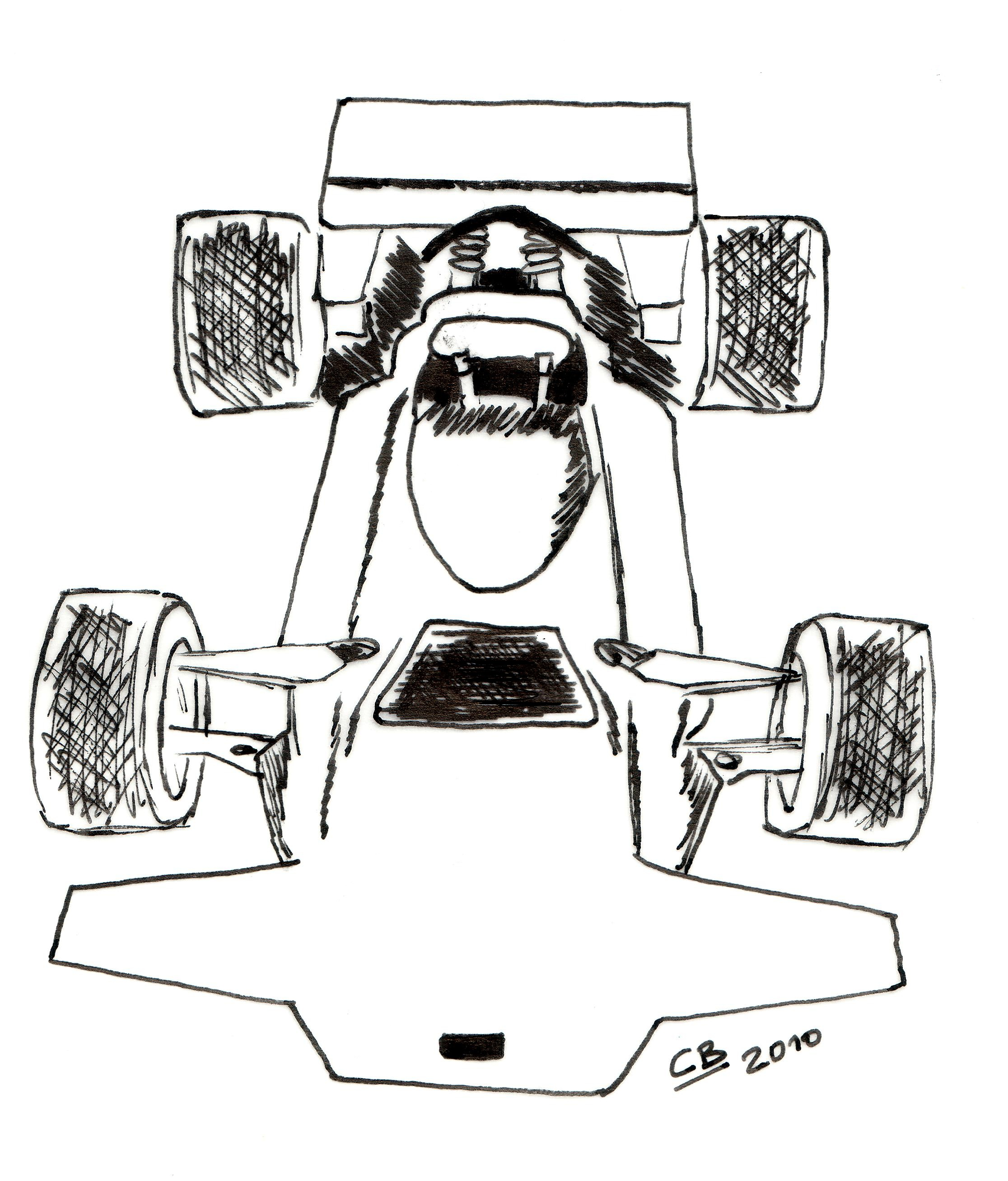 The Formula one Connew PC1 (1972)